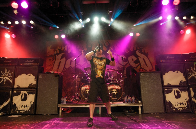 Jamey Jasta of Hatebreed during the Decimation of the Nation tour. Photo: Scott Alexander